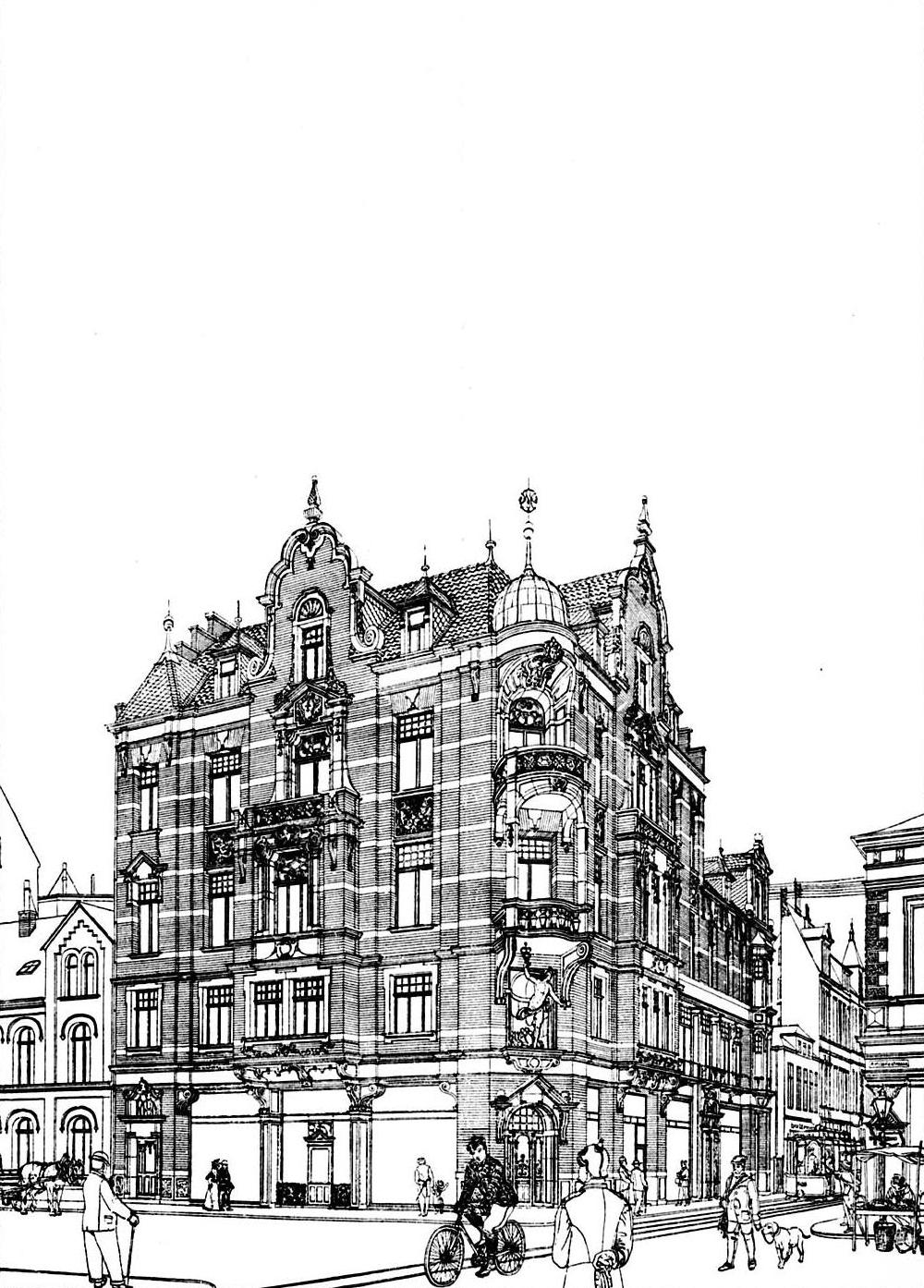 Mercurius Building, Hanover.